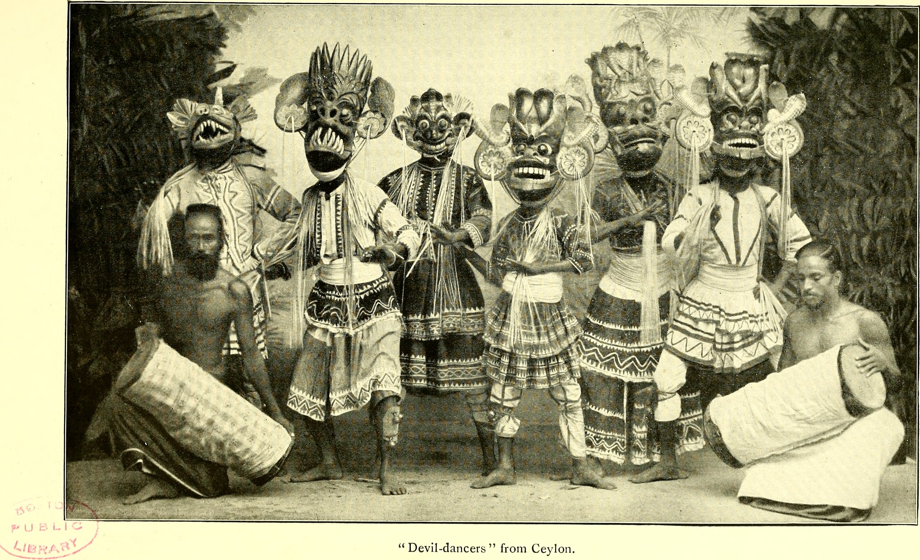 Title: Beasts and men, being Carl Hagenbeck's experiences for half a century among wild animals; Year: 1912 (1910s) Authors: Hagenbeck, Carl, 1844-1913 Subjects: Animal training; Menageries; Zoological specimens; Zoos Publisher: London, New York (etc. ) : Longmans, Green, and Co. Text Appearing Before Image: ' Text Appearing After Image: '